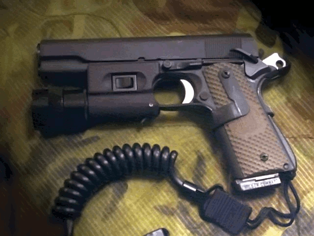 This picture was taken by me, Mike Searson, of my privately owned pistol and I release it to the public domain in order to illustrate what this pistol looks like to folks who have never seen one for the article on the :en:MEU(SOC) pistol}MEUSOC pistol .